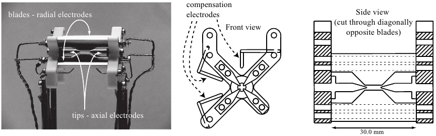 Schematic drawing of the linear Paul trap used in a quantum information experiment in the Blatt group, Innsbruck. The distance between the endcaps is 5mm whereas the distance between the RF blades is 1.6mm.